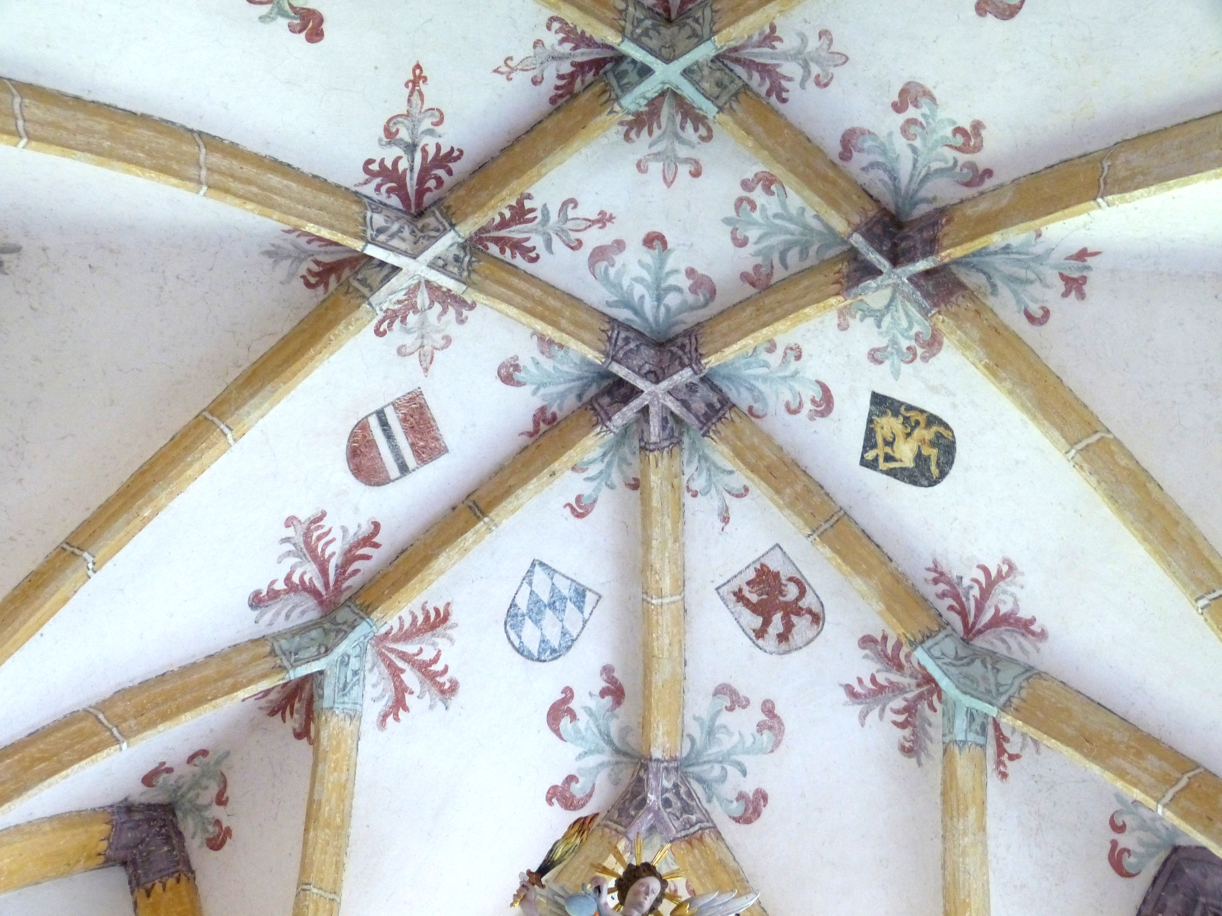 Grongörgen ( Lower Bavaria ). Saint Gregory church ( 1460 ): Gothic vaults with frescos of flowers and coats of arms.